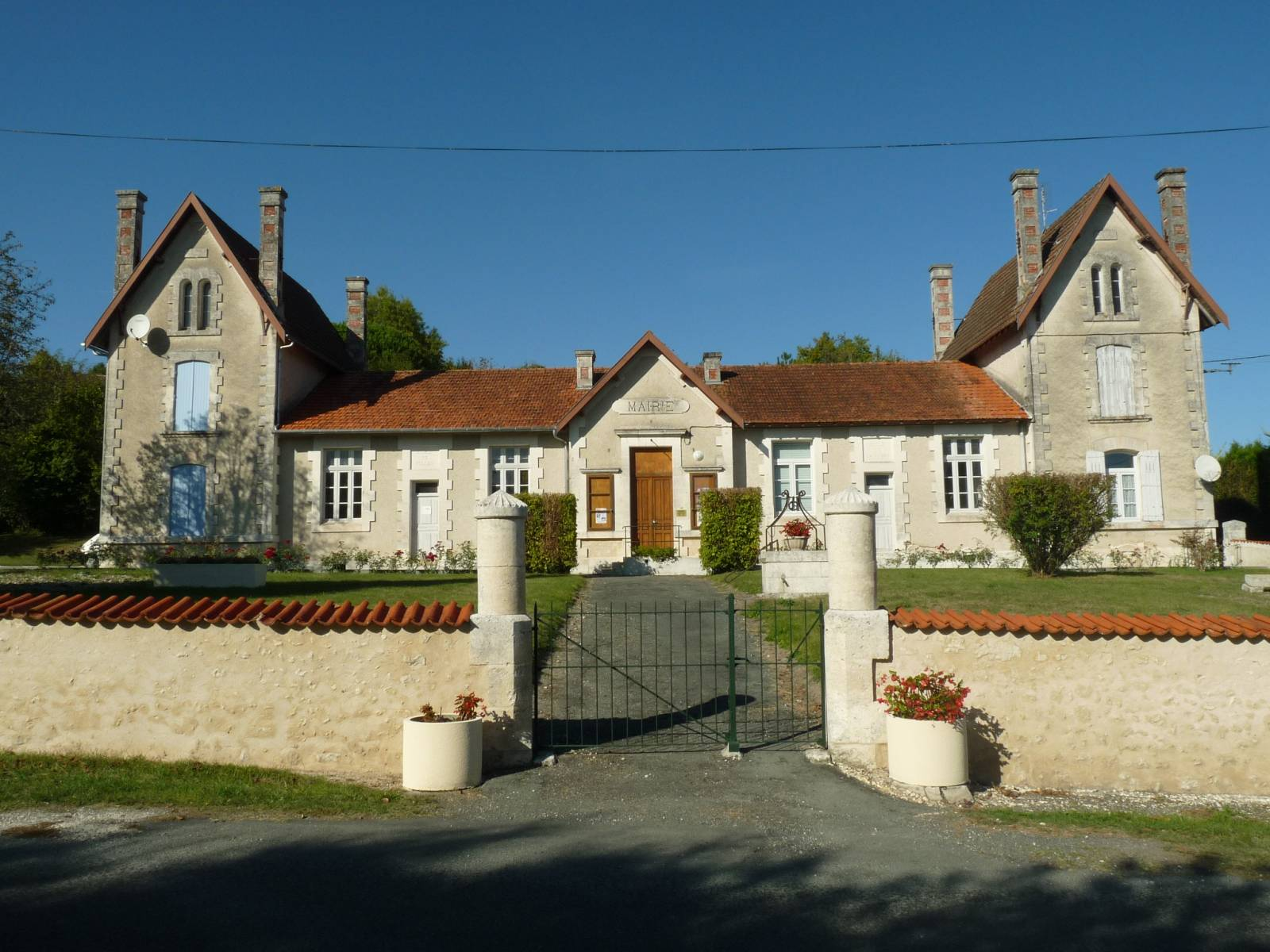 town hall of Bouteilles-Saint-Sébastien, Dordogne, SW France